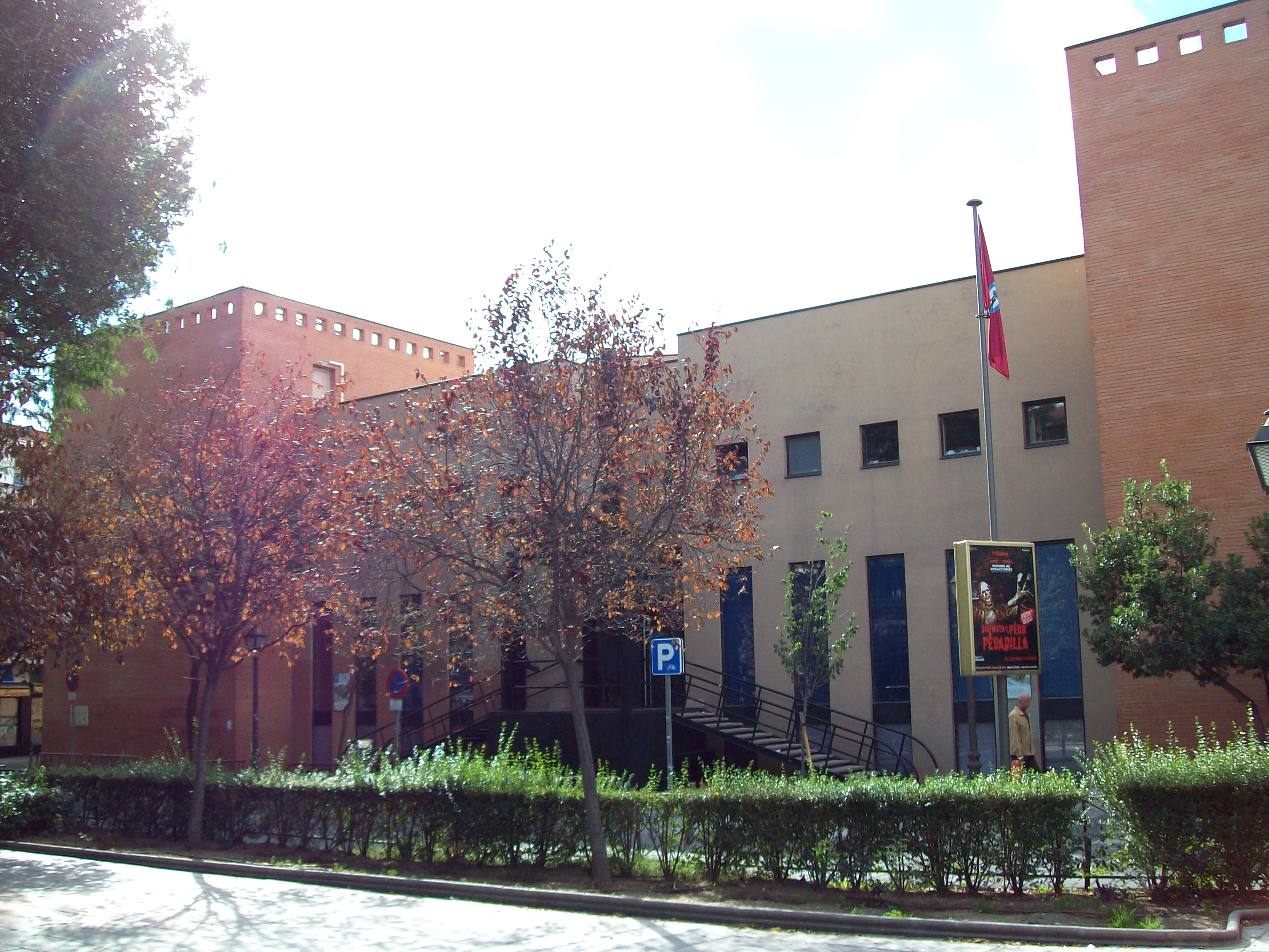 View of Villa de Vallecas District Hall in Madrid (Spain), at 12 Paseo de Federico García Lorca (a boulevard).